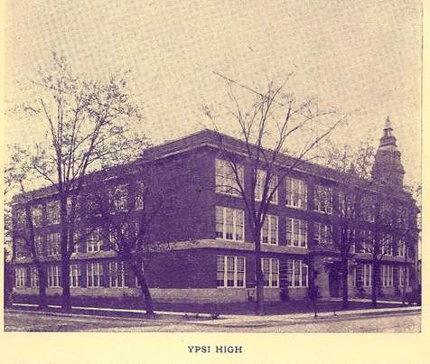 Photograph of old Ypsilanti High School c. 1922, from the 1922 yearbook.